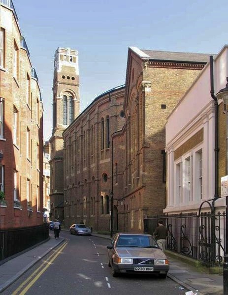 View northeast Castle Lane, Westminster, London SW1, with Westminster Chapel ahead